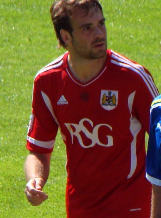 14/08/11 Cardiff V Bristol City, Championship, Cardiff City Stadium, Cardiff, Wales